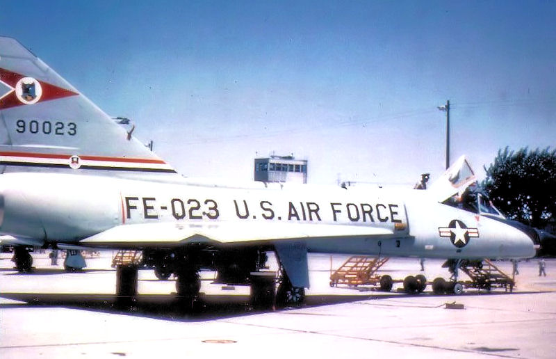 ADC 329th Fighter-Interceptor Squadron F-106 59-0023